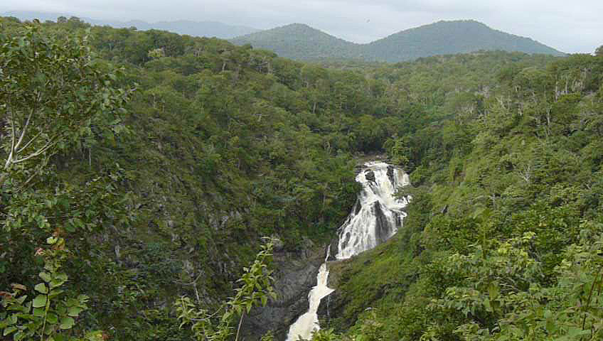 Moyar falls on the River Moyar, Mudumalai Tiger Reserve, Tamil Nadu